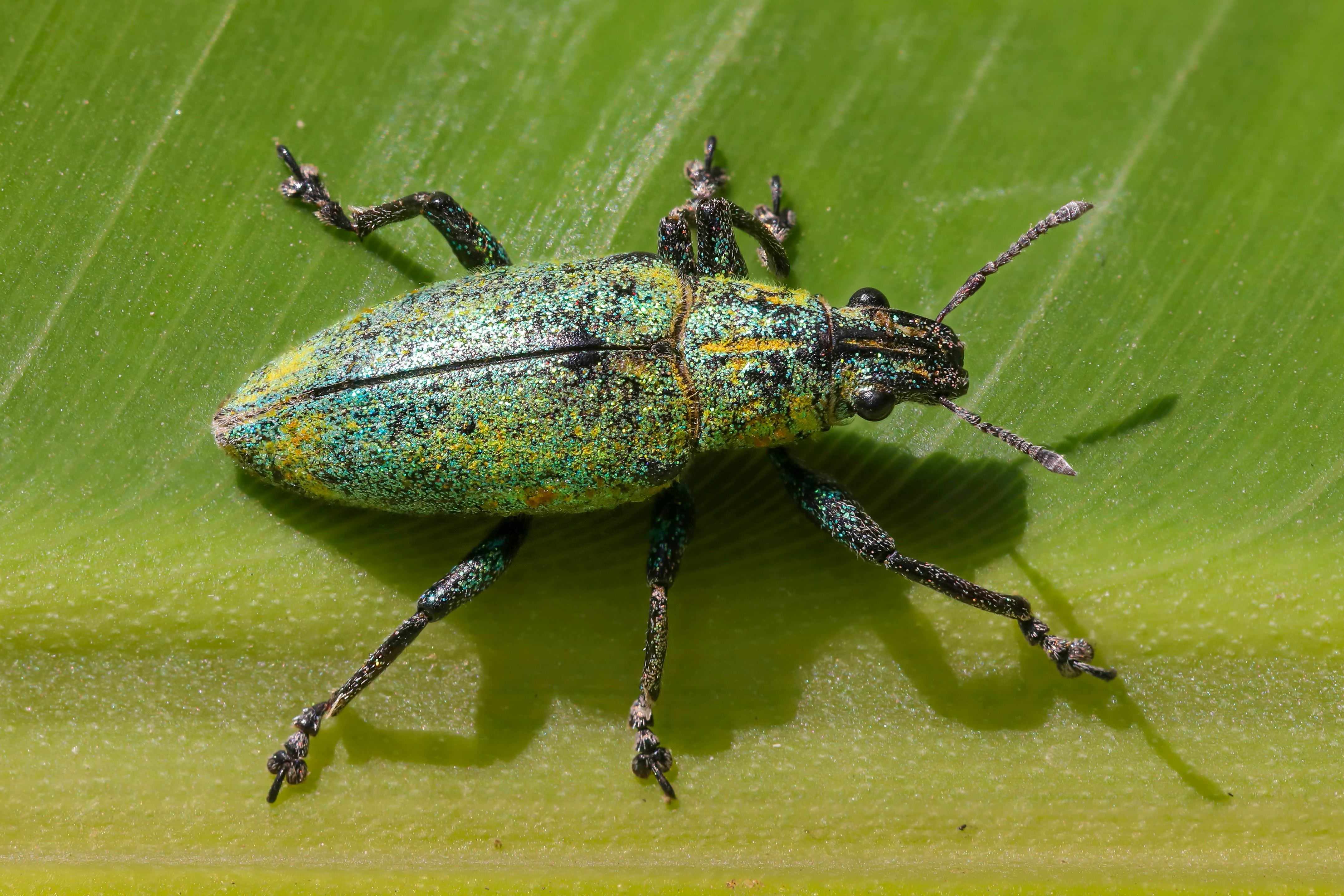 Brilliant metallic green Hypomeces squamosus (weevil) on a green leaf, in Don Det, Si Phan Don, Laos. The insect measures about 12mm long. This picture is a digital montage based on 5 different photographs (freehand camera), using the focus stacking technique (Helicon focus software).